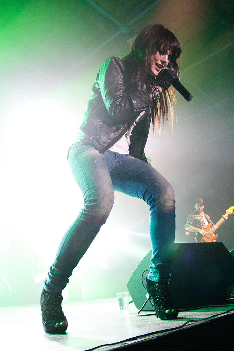 Ewa Farna in the Trinec (EU - Czech Republic - Trinec).